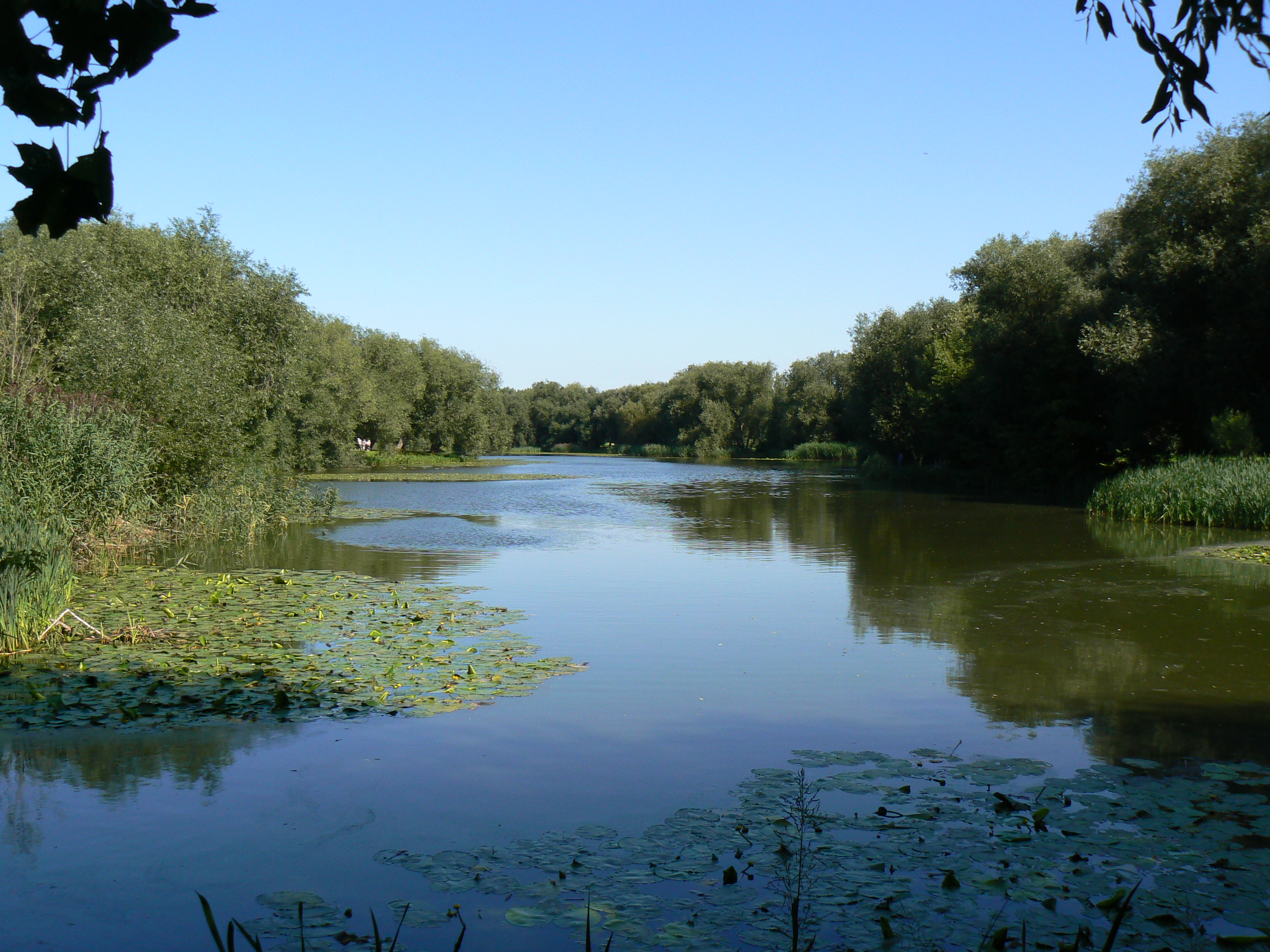 Lake Trinyčių in Klaipėda